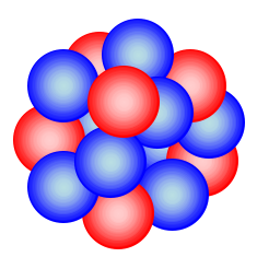 Schematic representation of a nucleus as an ensemble of neutrons and protons